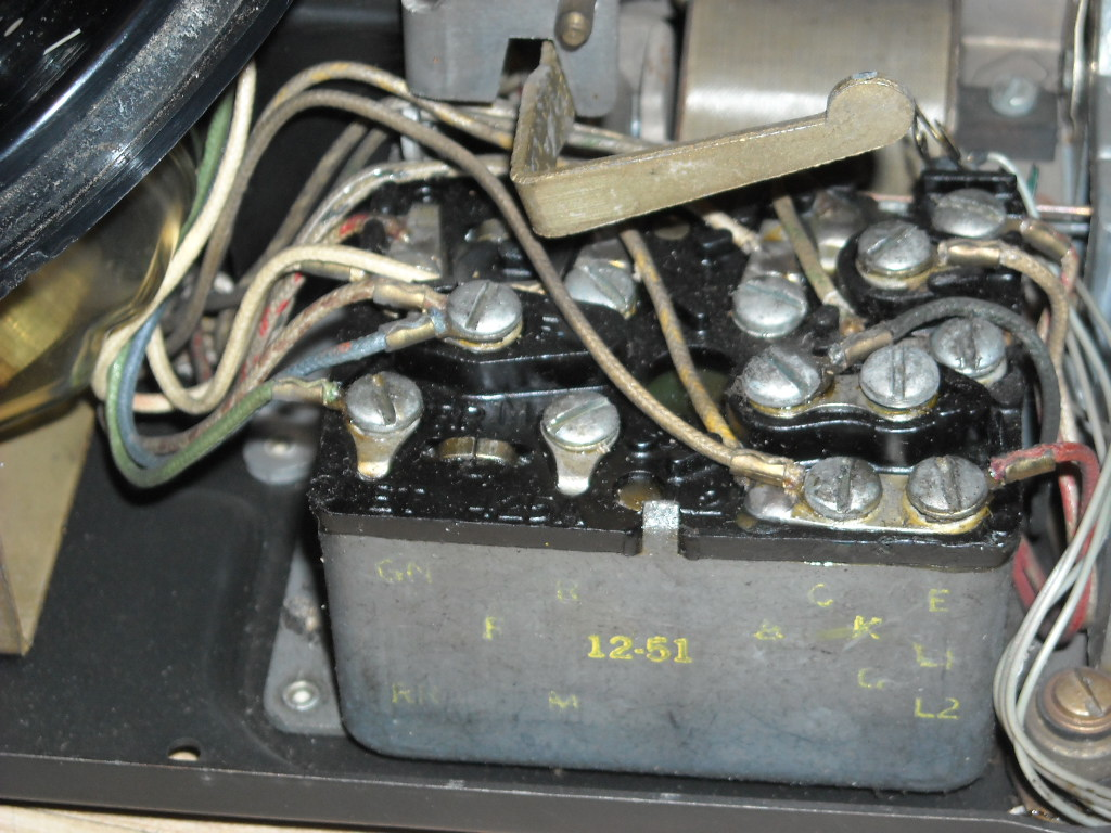 From my personal collection. A 12/1951 dated network in a Western Electric model 500. Network is model 425A, the original unit introduced in 1949. Inside the "potted" network are varistors, capacitors, and cosmoline.